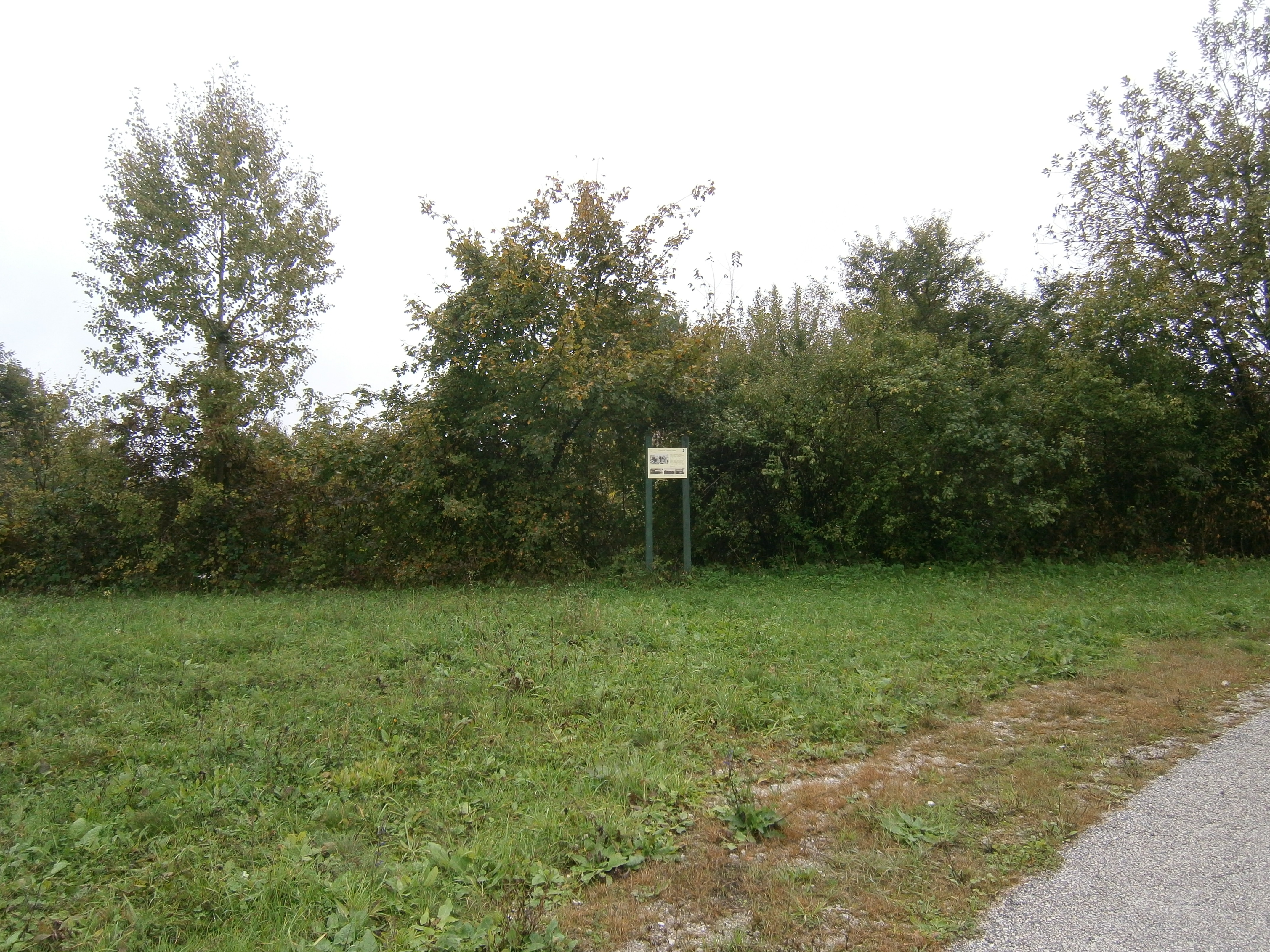 Ruins of castle Krupa